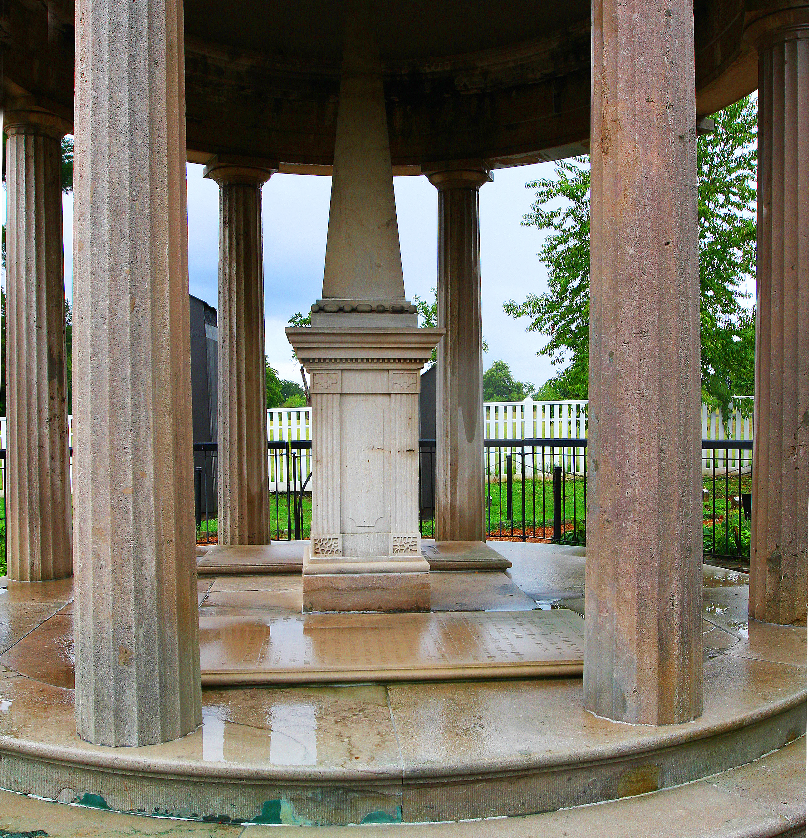 Andrew Jackson's Tomb 1